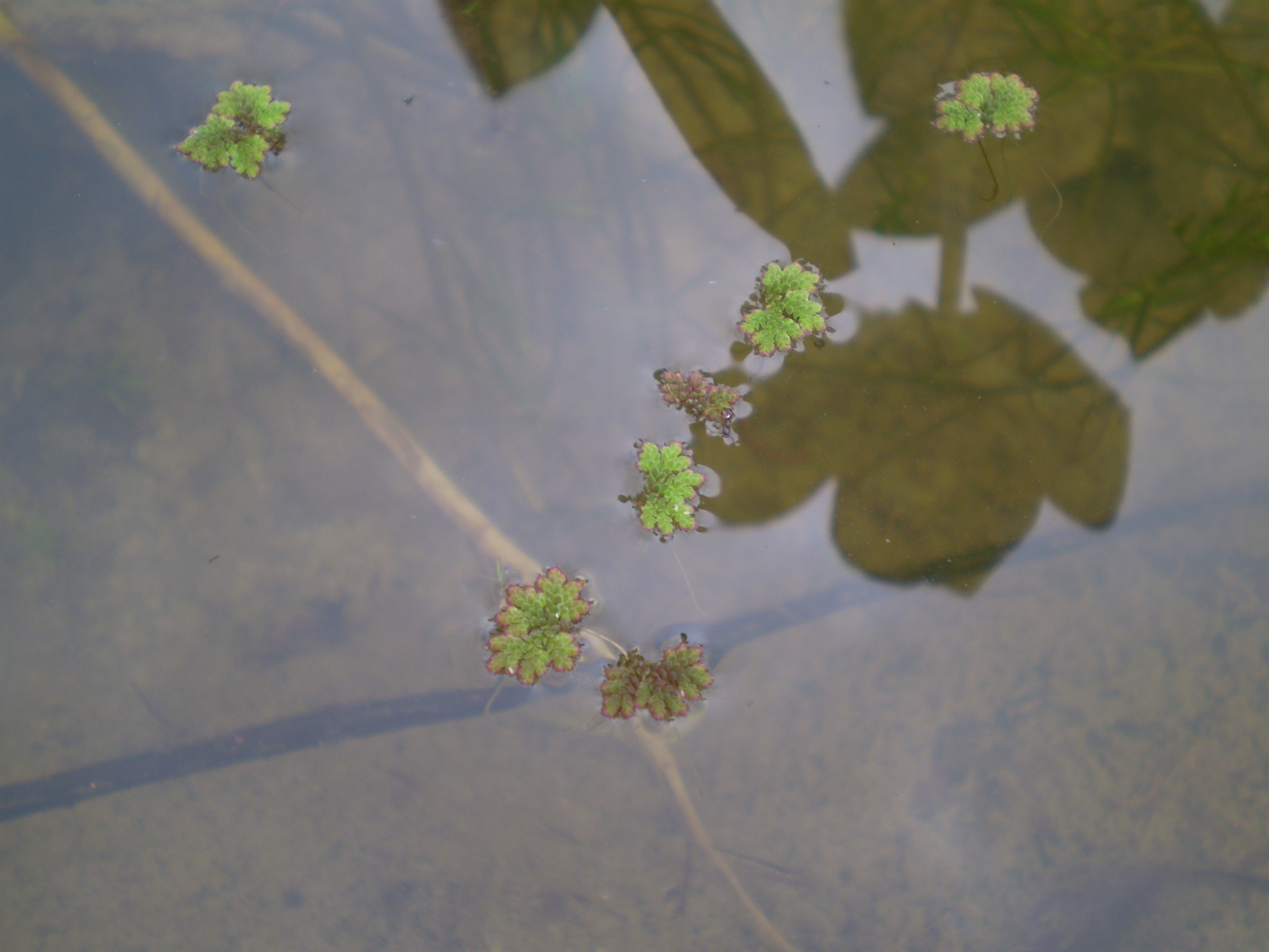 Azolla japonica